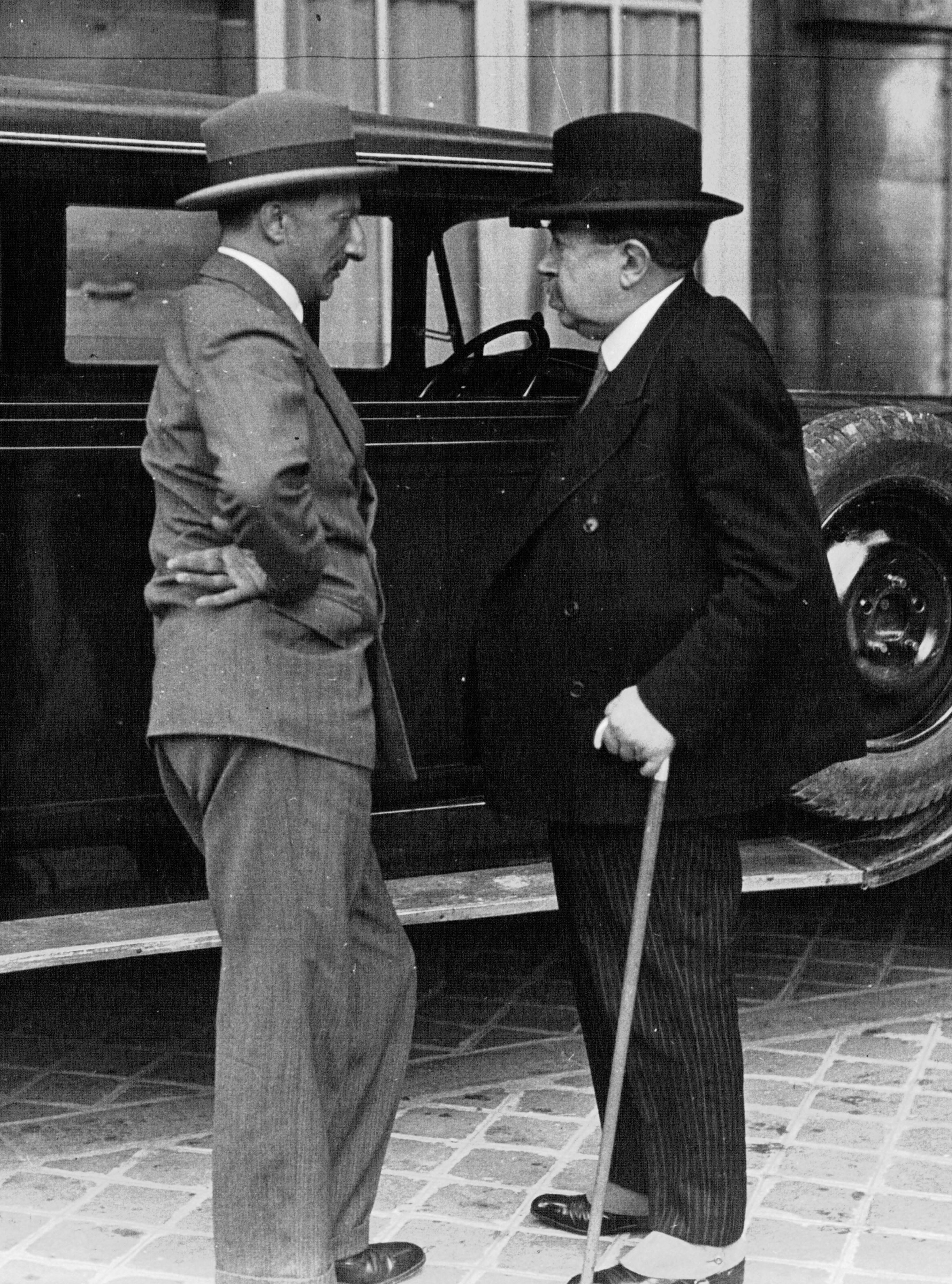 Council of Ministers at Rambouillet in 1932. From left to right: Georges Bonnet, Paul Painlevé.